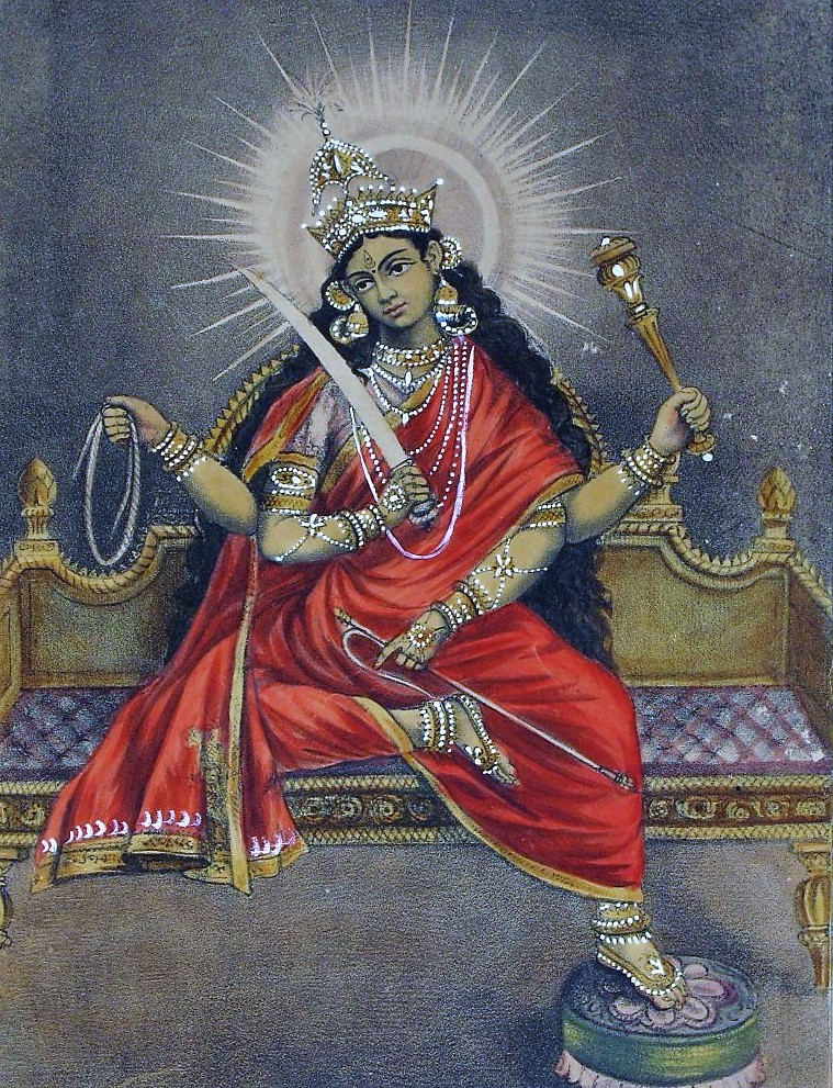 Goddess Matangi - Hand Coloured Lithograph Print, c1880's